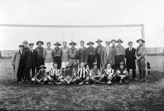 1913, Knattspyrnumenn á Melavelli, KR, Fram og skátar. Ljósmyndari / Photographer: Magnús Ólafsson Format: Glerplata / Glass negatives, 10 x 15 cm. Höfundarréttur / Rights Info: Enginn þekktur höfundarréttur / No known restrictions on publication. Geymsla / Repository: Ljósmyndasafn Reykjavíkur / Reykjavík Museum of Photography, Tryggvagata 15, 6. Hæð / 6th floor Númer myndar / Call Number: MAÓ 171 Myndavefur Ljósmyndasafnsins / Reykjavík Museum of Photography´s photoweb: ljosmyndasafn.reykjavik.is/fotoweb/Grid.fwx